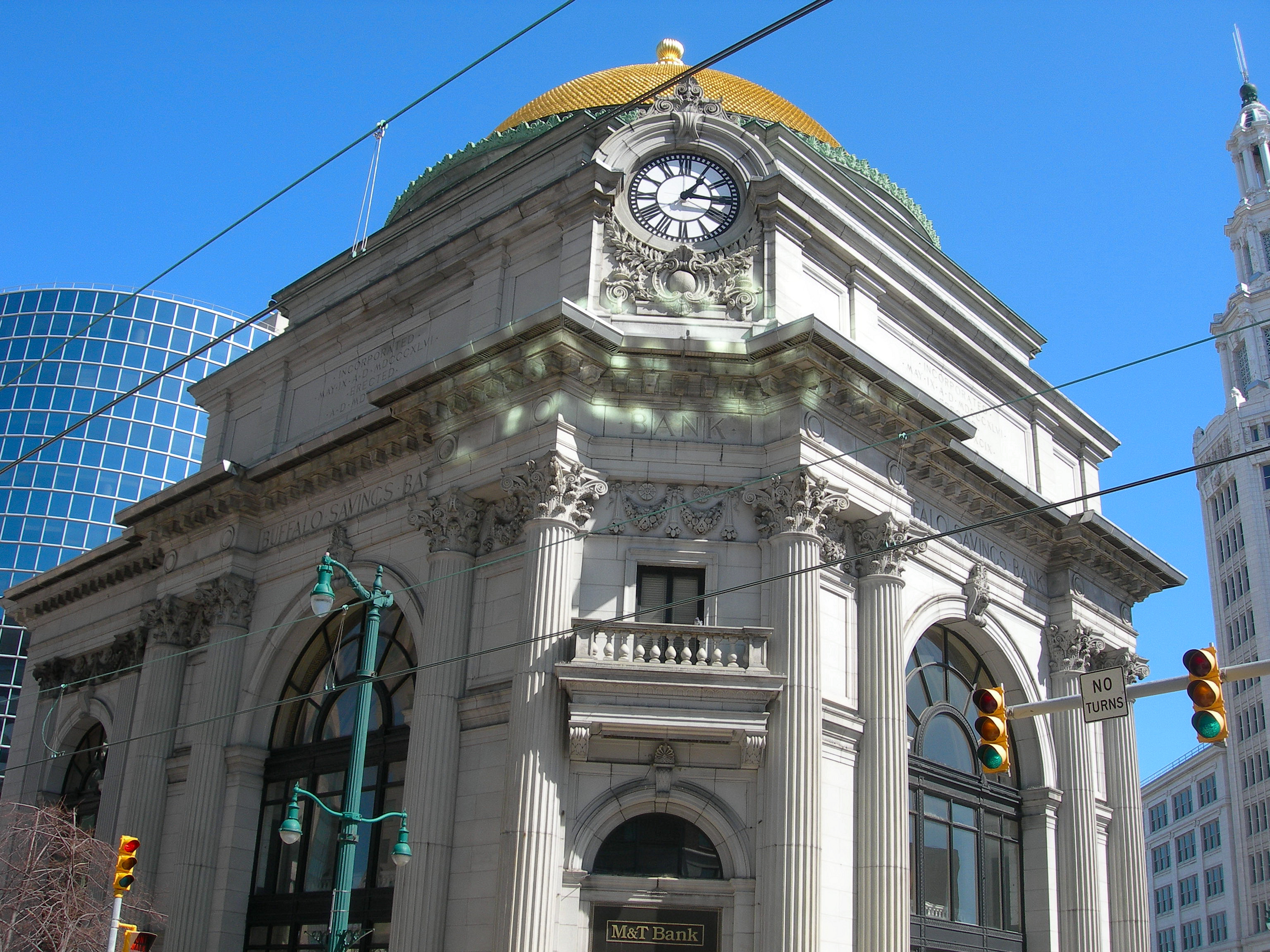 Buffalo Goldome